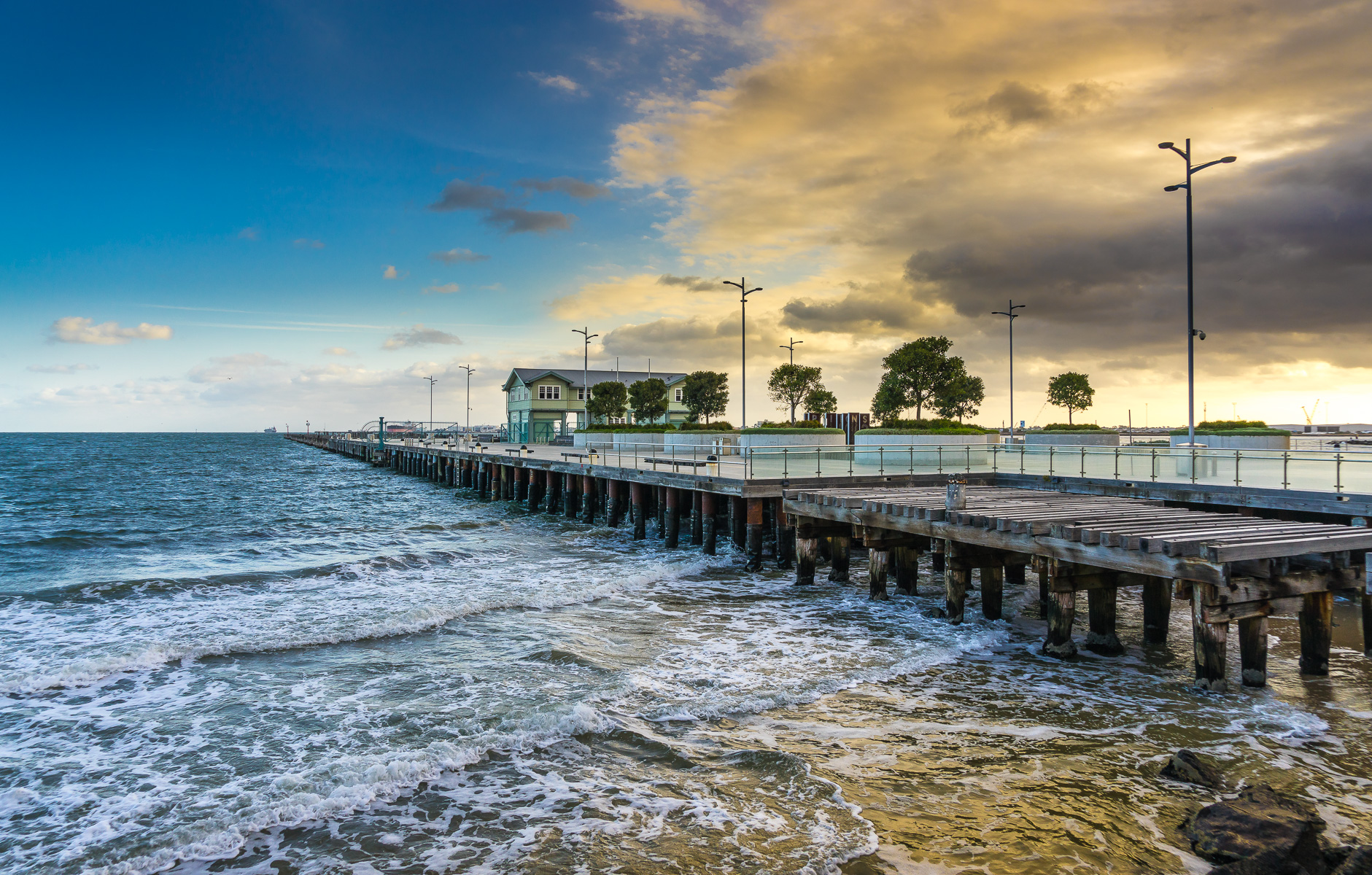 Princes Pier in Port Melbourne. Captured with a Sony A7R by Mark Galer.